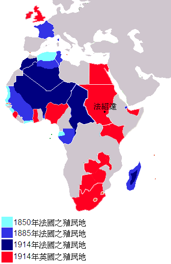 Africa horizontally expanding method